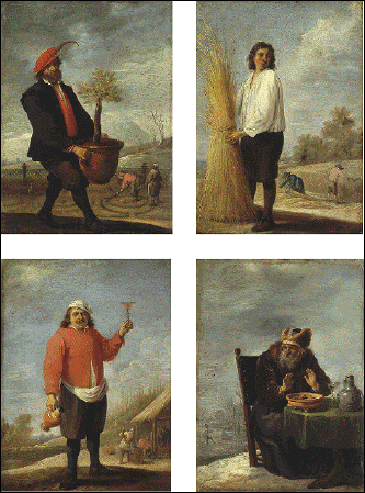 The series „The Four Seasons“